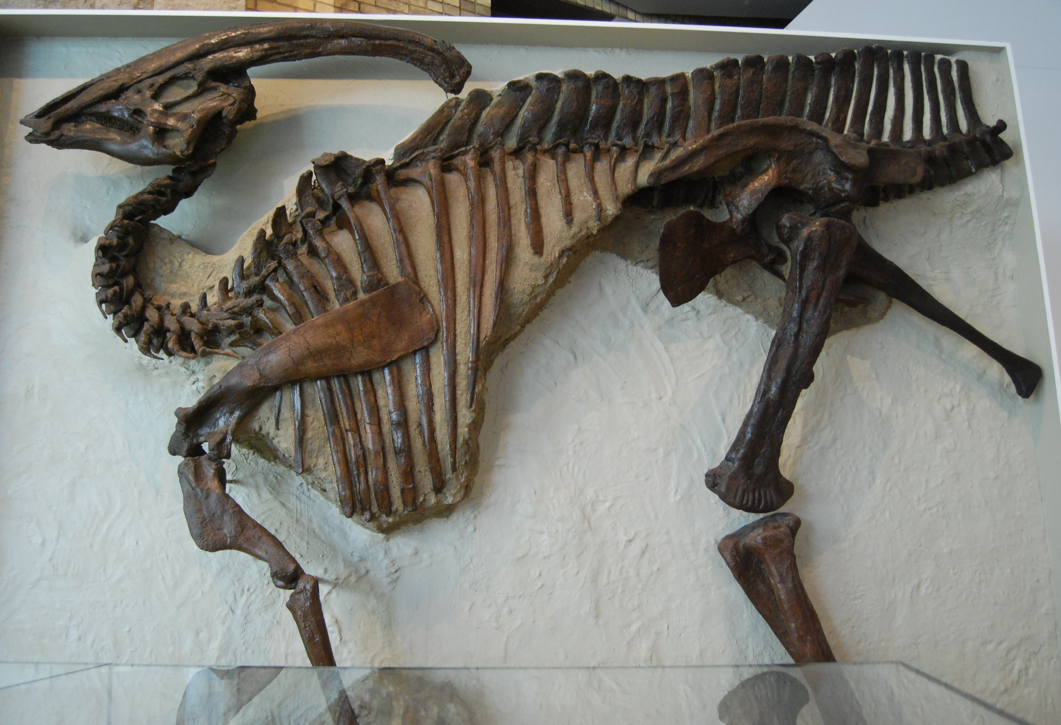 Incomplete Parasaurolophus walkeri type specimen in the Royal Ontario Museum.